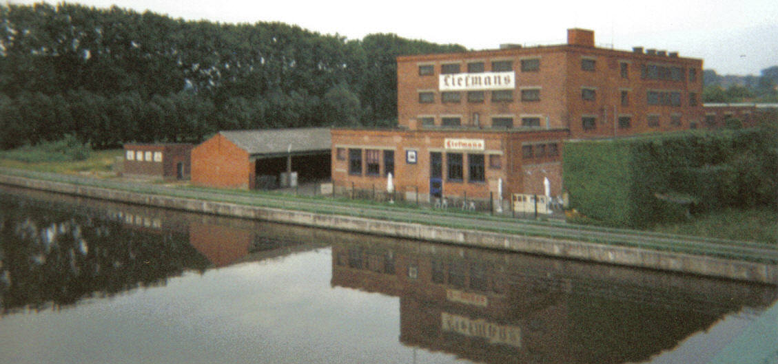 Liefmans brewery by the river Scheldt in Oudenaarde, Belgium, seen from the pedestrian bridge.